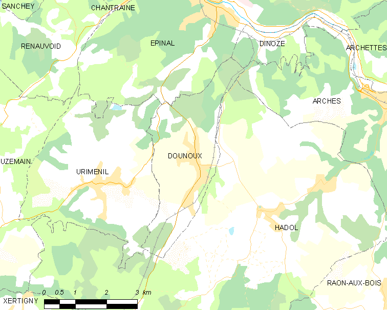 Map of French municipality Dounoux